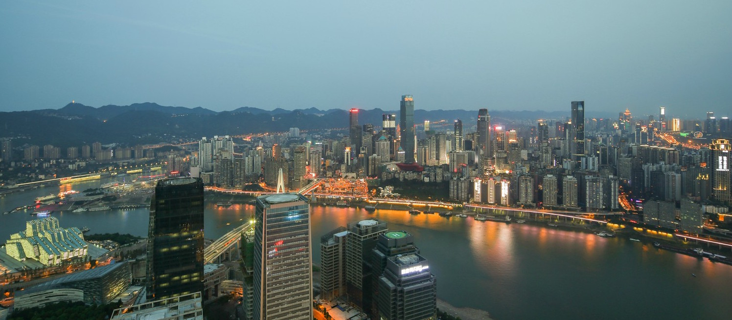 A night view of Yuzhong Peninsula of Chongqing from across Jialing River